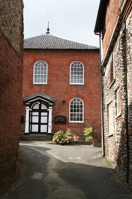 Methodist Chapel In 1779 the Wesleyan Society was founded in Walsingham and the present Georgian Chapel built in 1794, the oldest still in use in East Anglia.